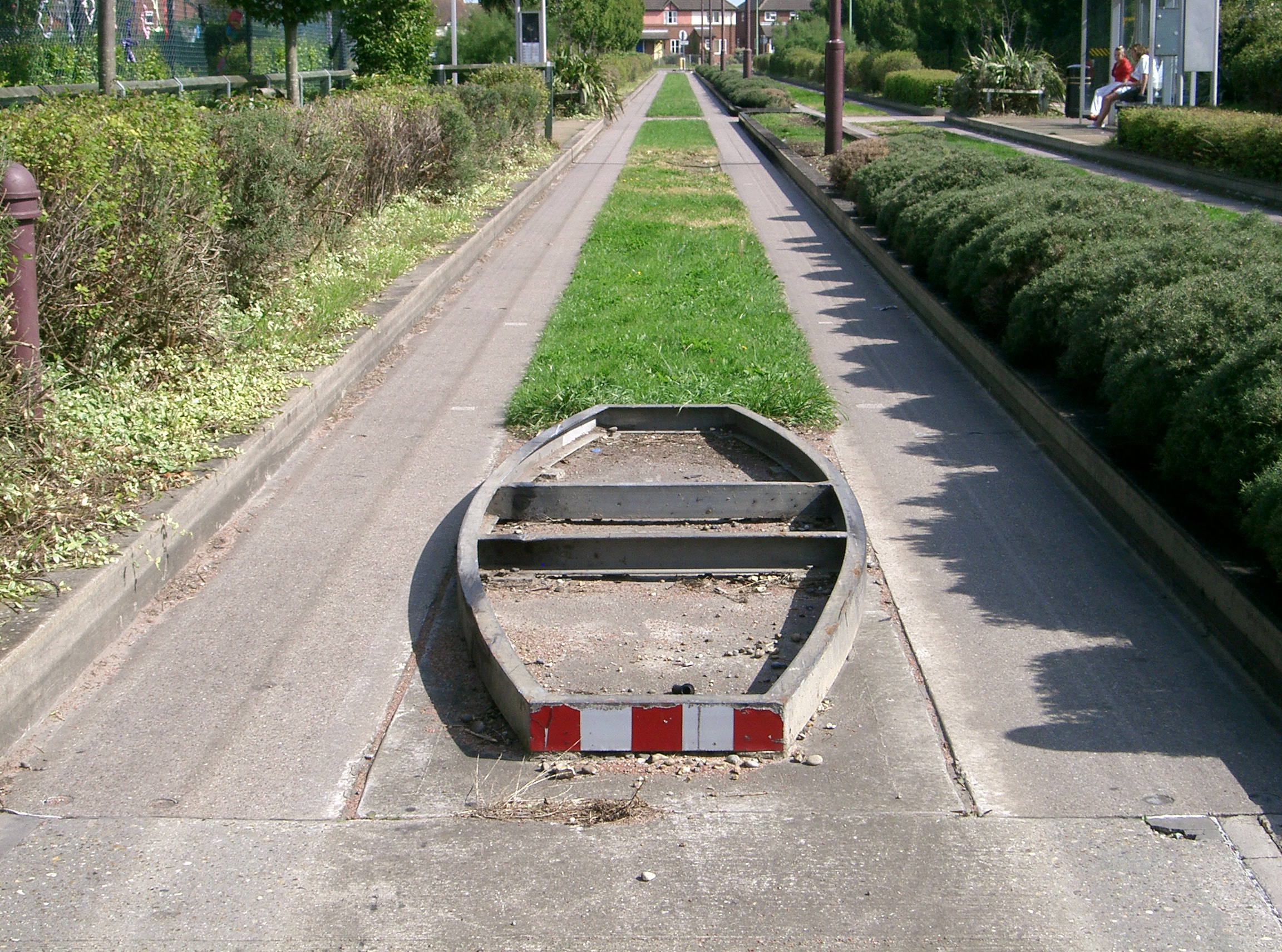 To deter private cars from entering steel channel galvanised traps are located at each end of both guided bus lanes. Ipswich (UK) kerb guided busway, summer 2006. Photographed by S P Smiler